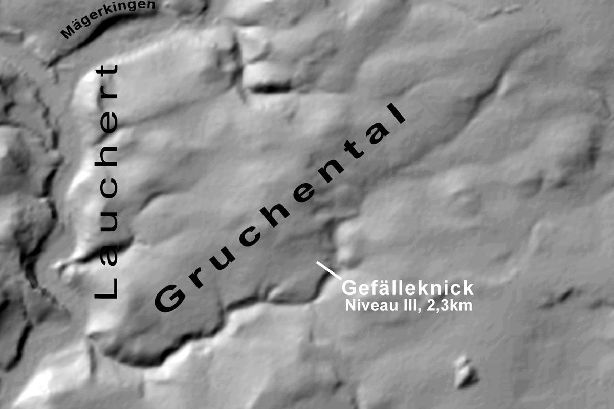 knickpoint in river "Gruchen", tributary of the Lauchert, near Gammertingen, Swabian Alb. Like most Lauchert tributaries it fell dry already in Late Neogene. The steep slope of the lower 2,3km of the valley, caused by episodic headward erosion, and the flat continuation behind the knickpoint are a measure of denudation of the terrain around the Lauchert since its tributaries fell dry.